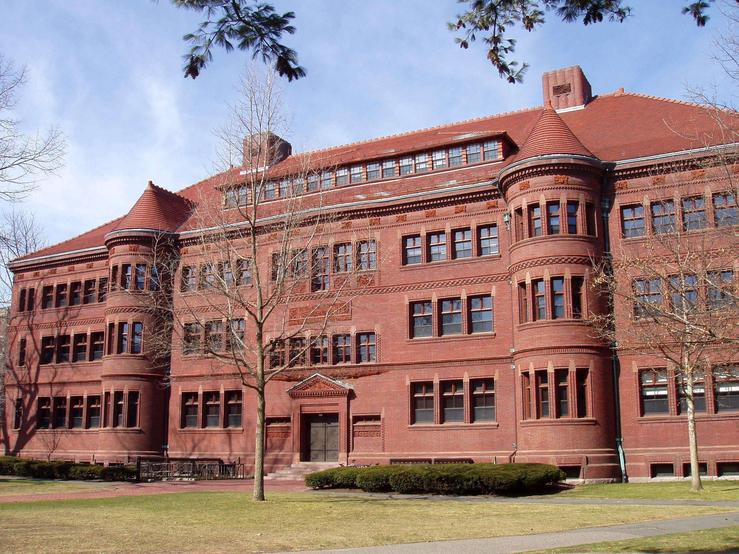 Photograph of east facade, Sever Hall, Harvard University, Cambridge, Massachusetts, USA. Architect H. H. Richardson.